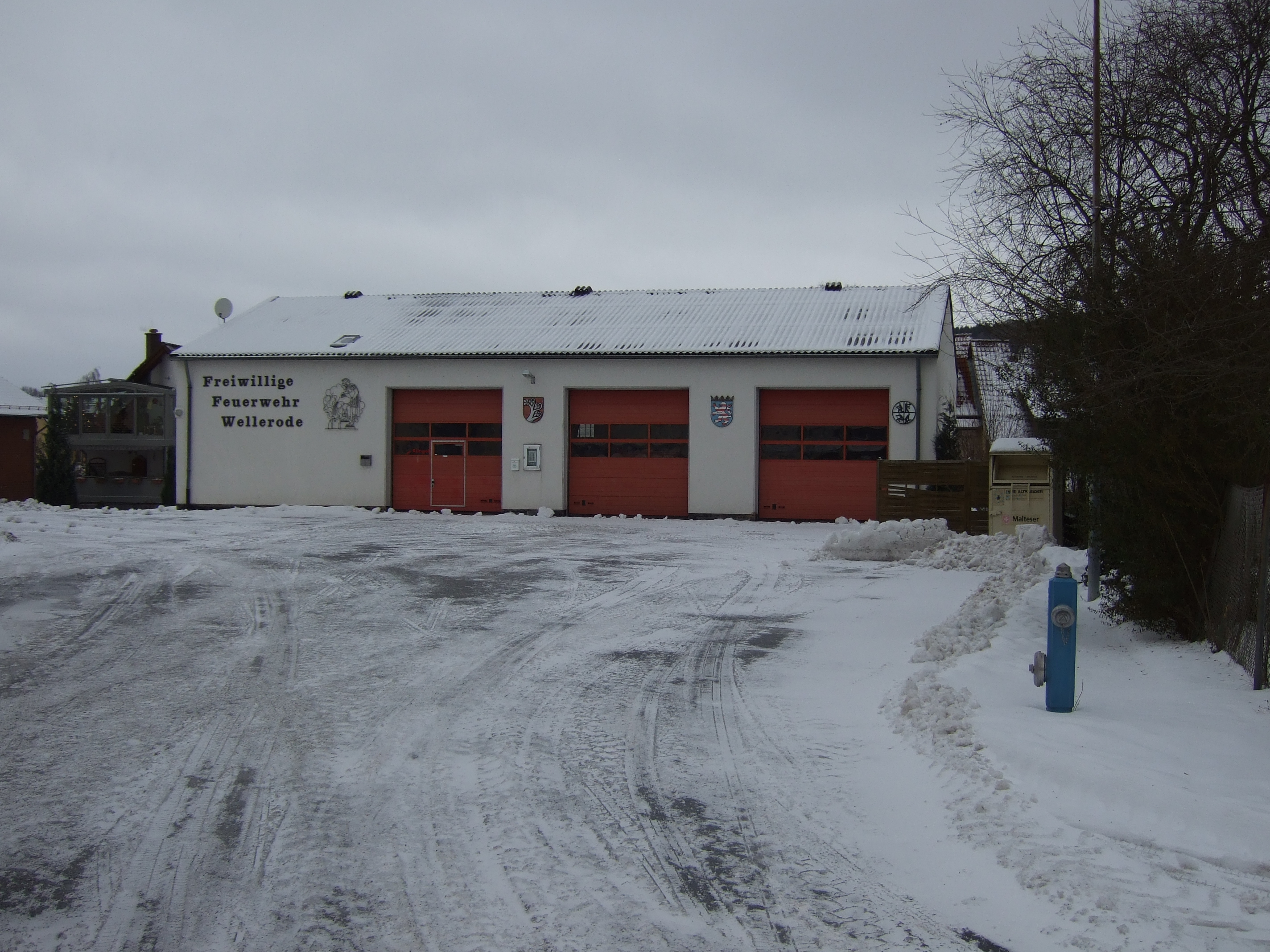 firedepartment söhrewald